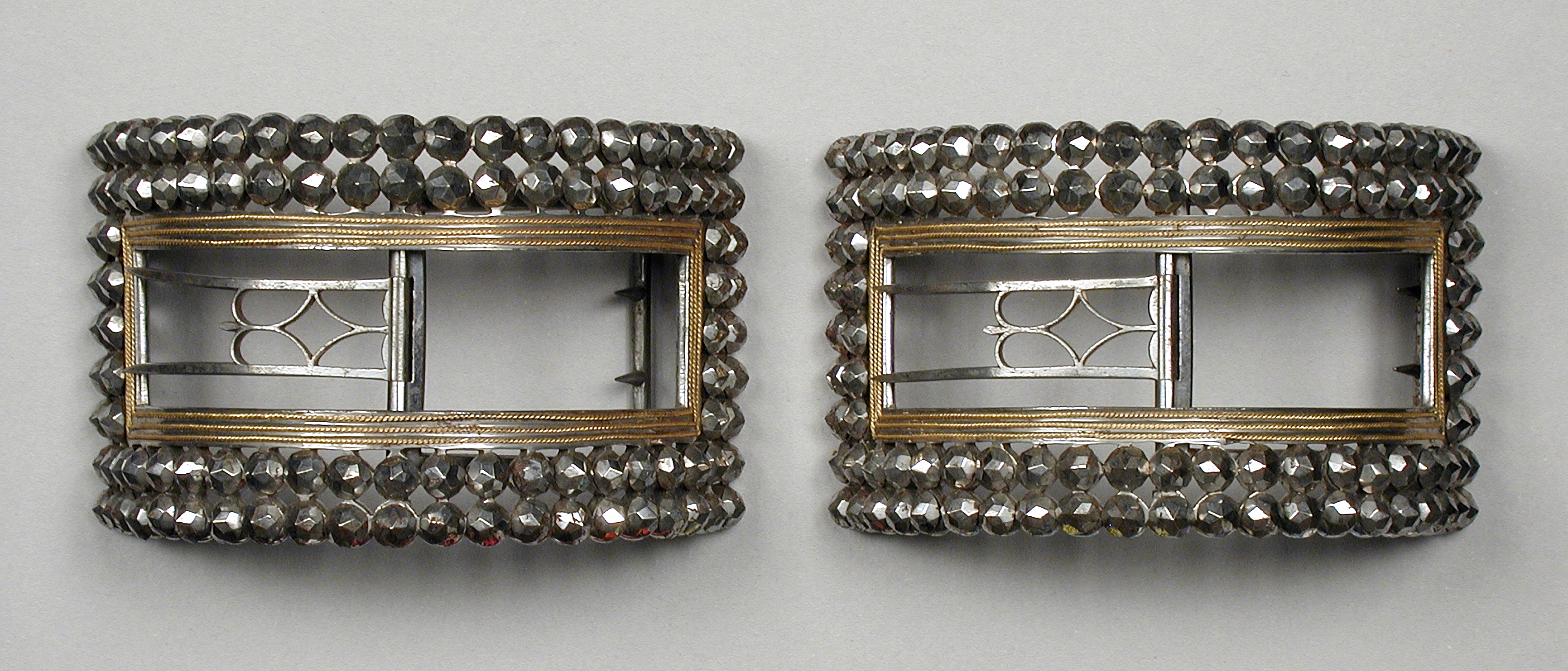 Pair of man’s steel and gilt wire shoe buckles, England, circa 1777-1785